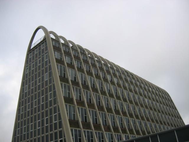 Part of the buildings at Hollings Campus ("The Toast Rack") of Manchester Metropolitan University (until 1992 the Manchester Polytechnic). The building received Grade II listed status in 1998.